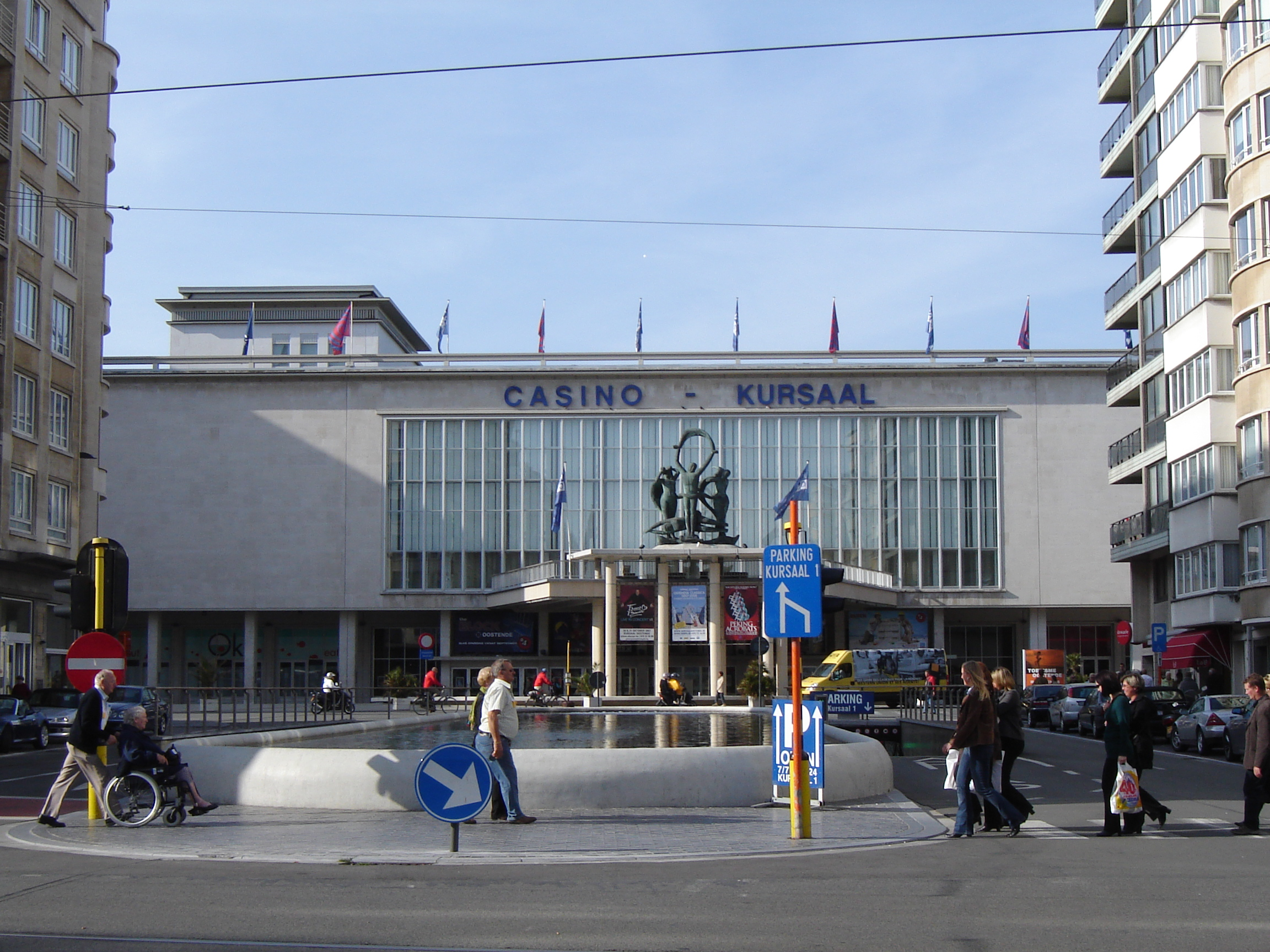 Casino-Kursaal in Oostende. Oostende, West Flanders, Belgium